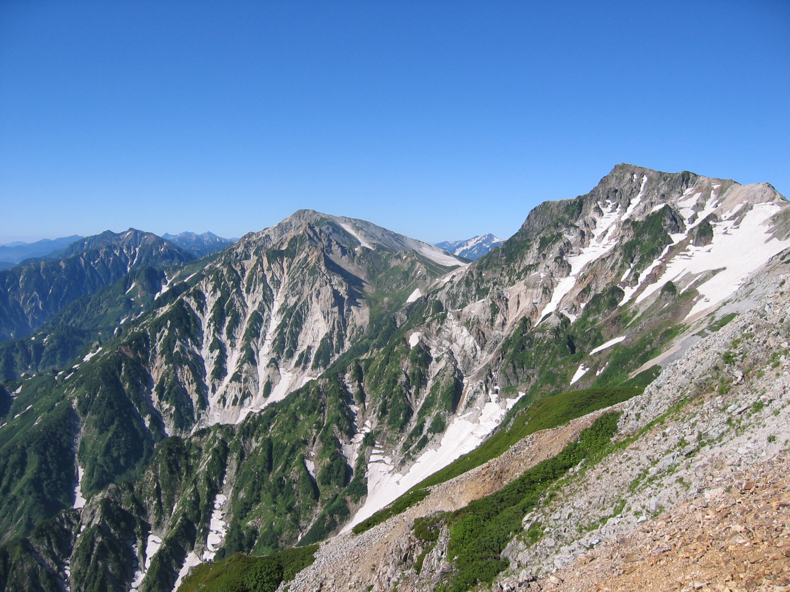 Japanese Alps (Hakuba peaks). Right:Mount Shiroumadake, Center:Mount Hakuba-yarigatake, Left:Mount Kashima-yarigatake.